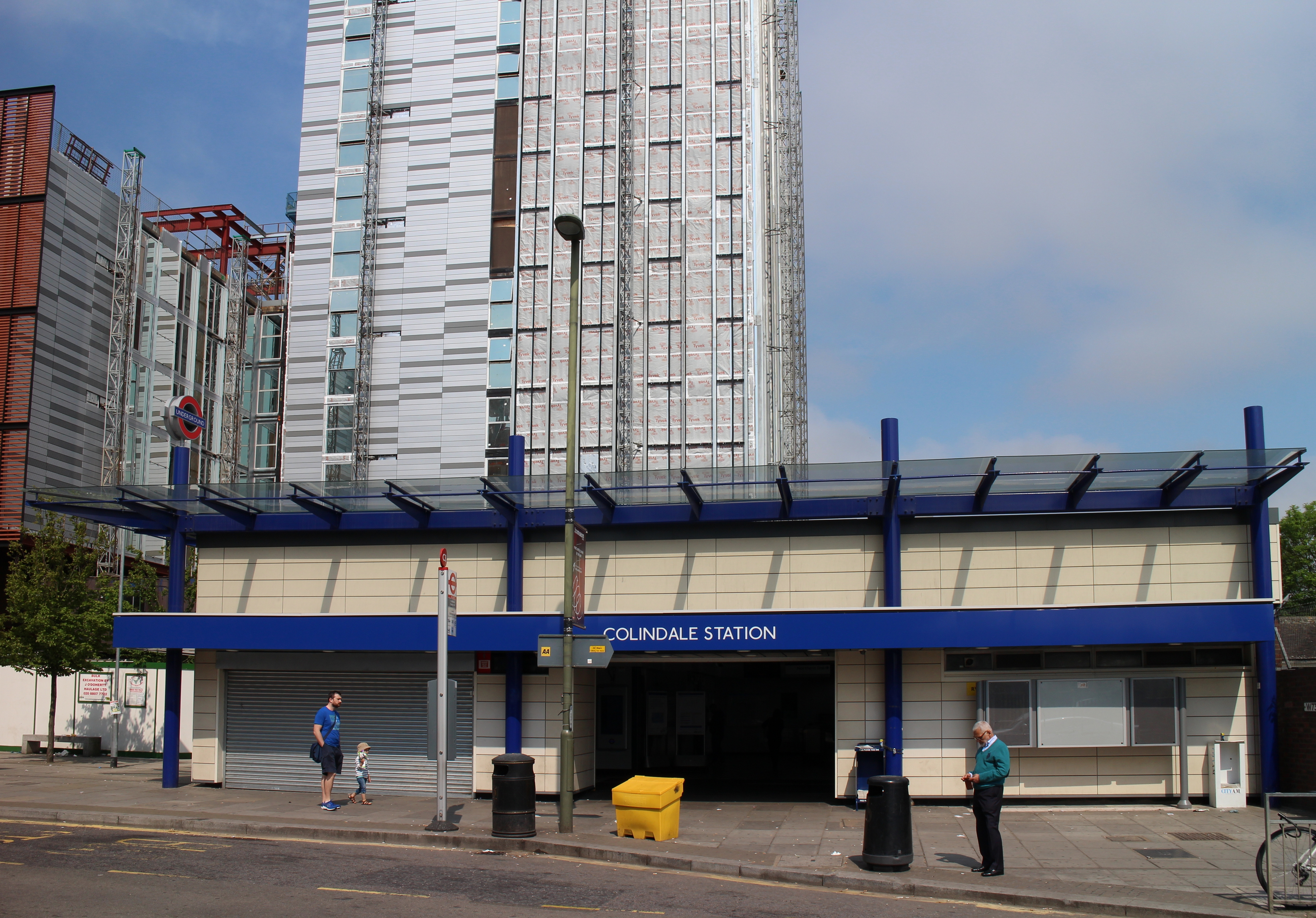 Colindale Tube Station June 2016